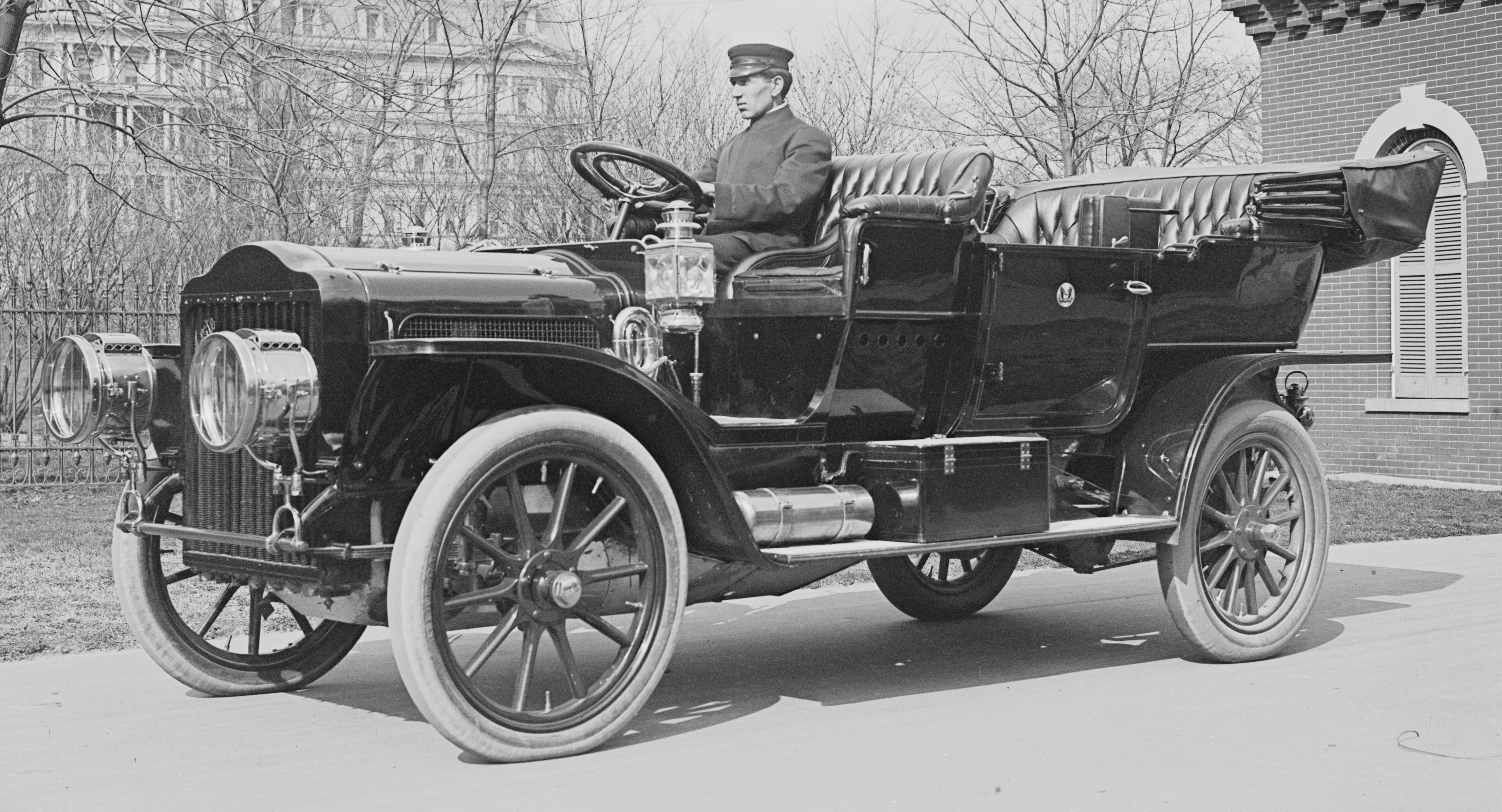 U. S. President William Howard Taft's White Motor Company Model M 40 horse-power steam 7 passenger touring car. Notes: Taft was the first U.S. President to use motorcars exclusively instead of horse drawn transport while in office. He purchased this vehicle for his own use with his own funds between his election and his inaguration. The man seen at the driving wheel in this photo is not identified, but is likely Taft's official driver, George Robinson. Location of the photo is on the White House grounds; in the background is the State Department Building, since renamed the Eisenhower Executive Office Building. discussion with references to period press publications. Auto can also be seen in use in this view:File:WilliamHTaftAutomobile.jpg